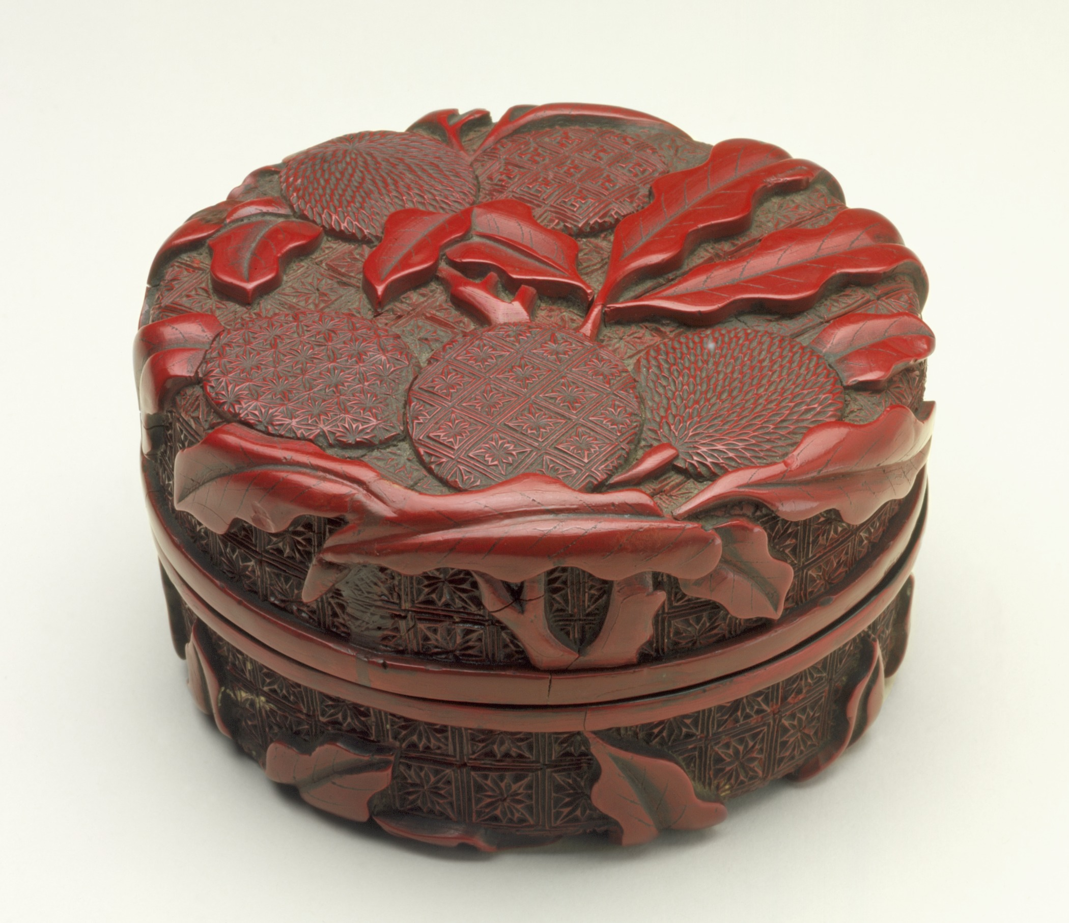 China, Chinese, Middle Ming dynasty, about 1450-1550 Furnishings; Accessories Carved red lacquer on wood core Gift of Joanne Lee in memory of Grandma Eleanor S. Gorman (M.87.205a-b) Chinese Art